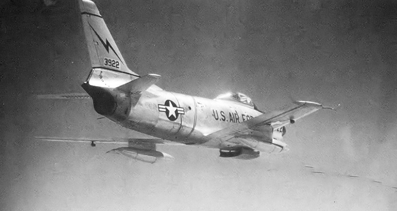 31st Fighter-Interceptor Squadron North American F-86D-45-NA Sabre 52-3922, Larson AFB, Washington, 1955